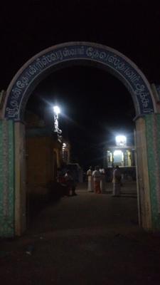 Akkurthanthondrisvarartemple2 ஆக்கூர் தான்தோன்றீசுவரர் கோயில்